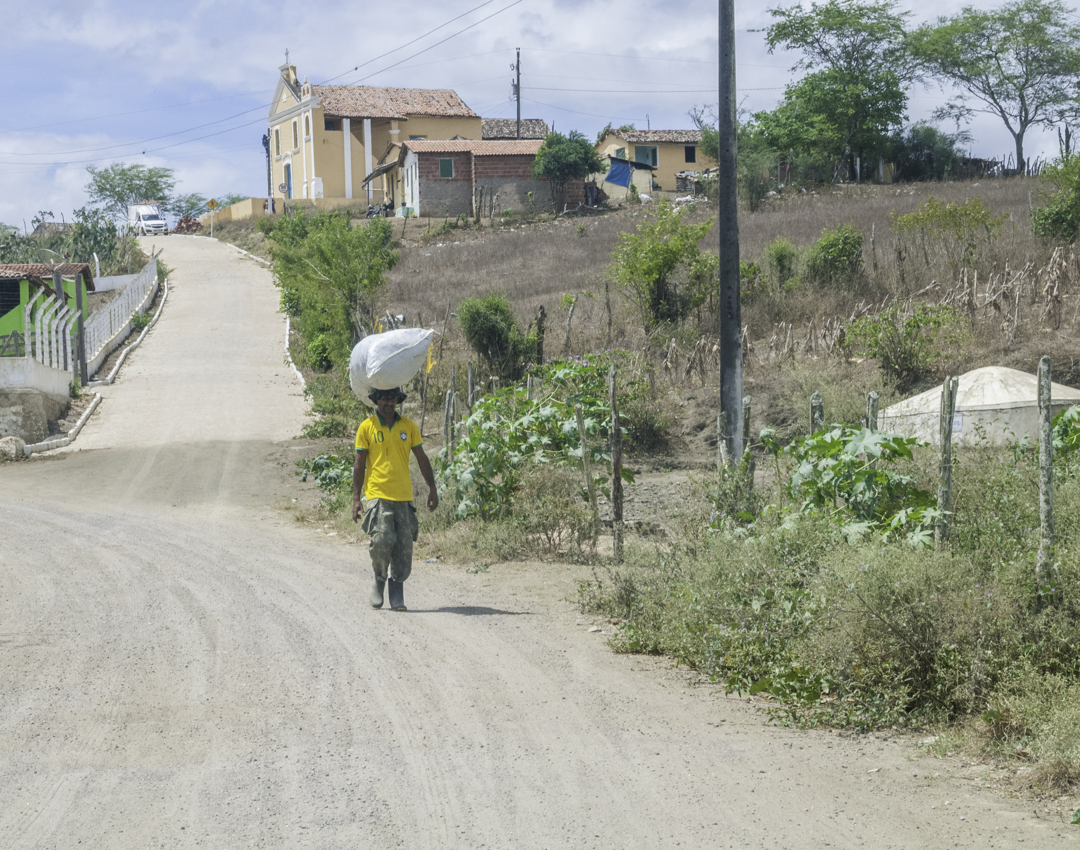 Street Colonial of Nordeste of Brazil